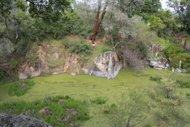 A view of Griffith Quarry taken from the edge of the dig site. Image was retrieved from: The Lyceum Archive's free photo gallery and is released under CC-By 2.5.